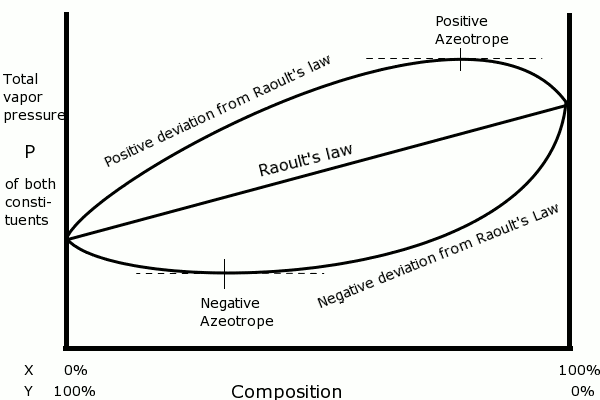 Subject: Total vapor pressure diagram of a mixture of two solvents; three examples: a) following Raoult's law, b) positive deviation from Raoult's law (with azeotrope), and c) negative deviation from Raoult's law (with azeotrope) Prepared with GIMP 2.2 on 13 April 2007 Status: Released to public domain